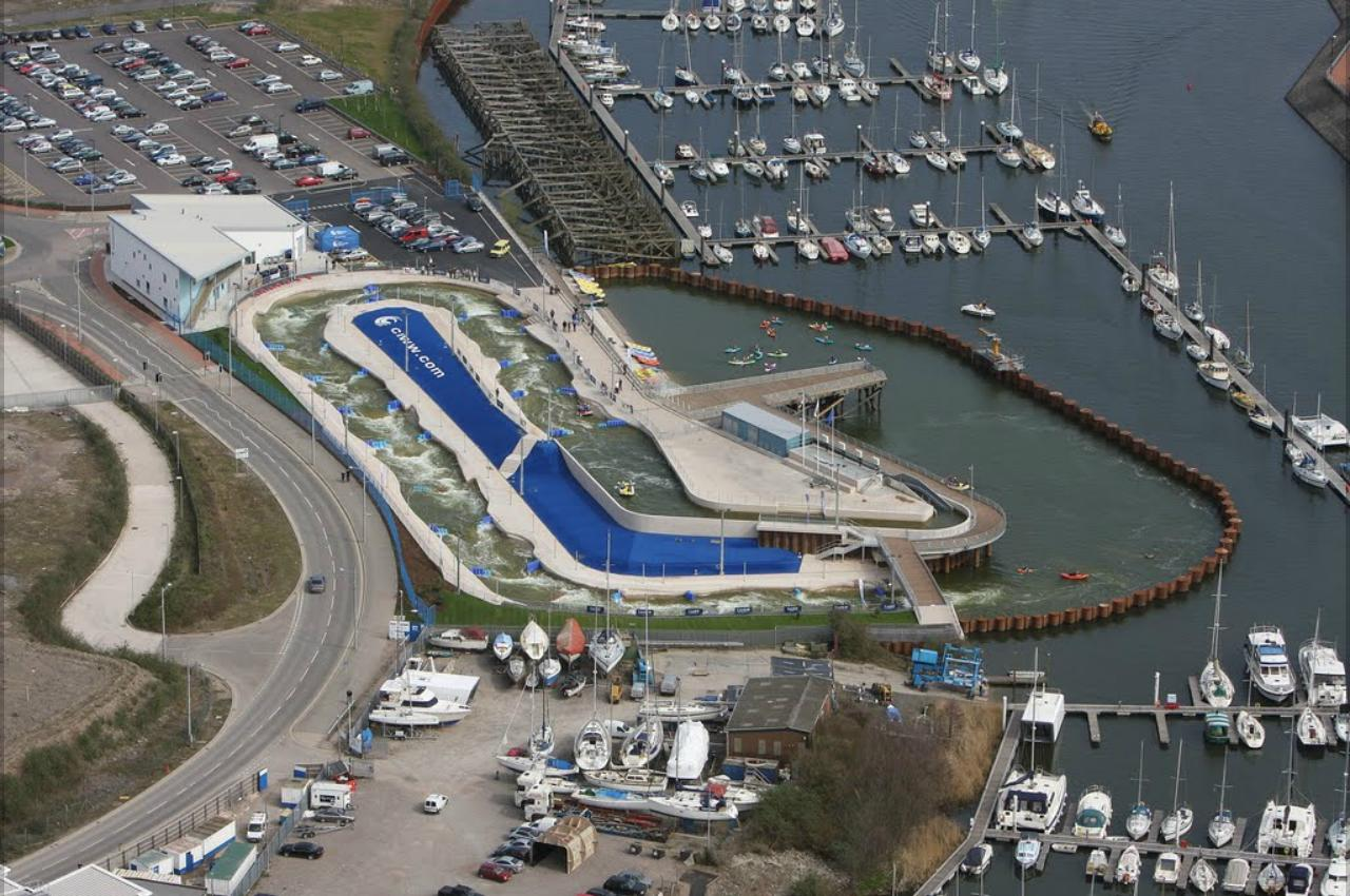 Aerial view of the pump-powered artificial river at Cardiff, Wales, UK.